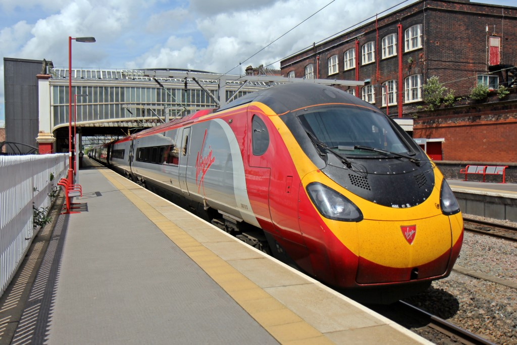 Virgin Class 390, 390013 "Virgin Spirit", Stoke-on-Trent railway station